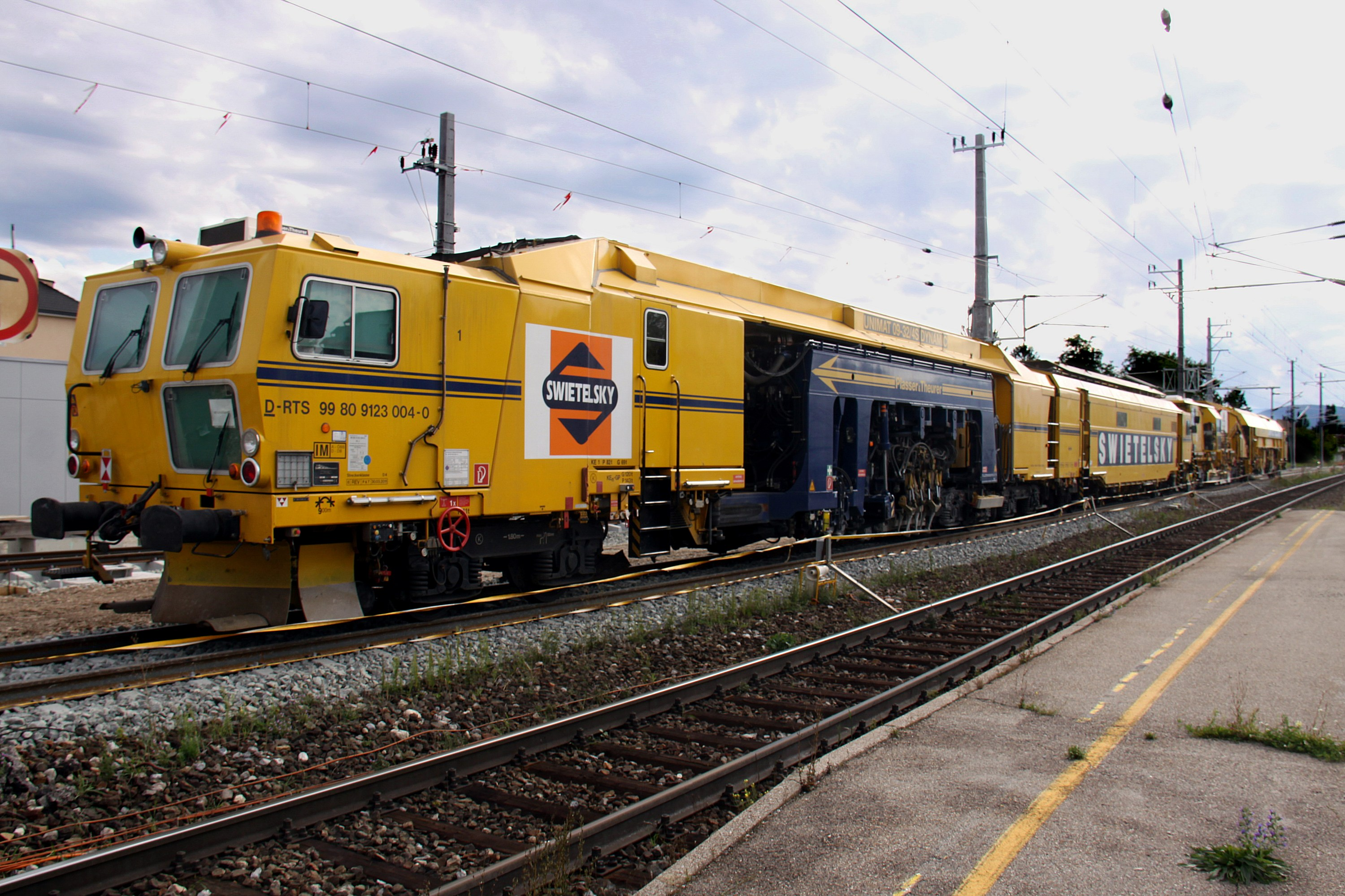 Total remodeling, renovation and modernization of Neunkirchen railwaystation. – Mechanised maintenance train „MDZ“.